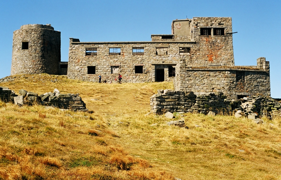 The ruins of the polish observatory "White Elephant" on the peak of Pip Ivan